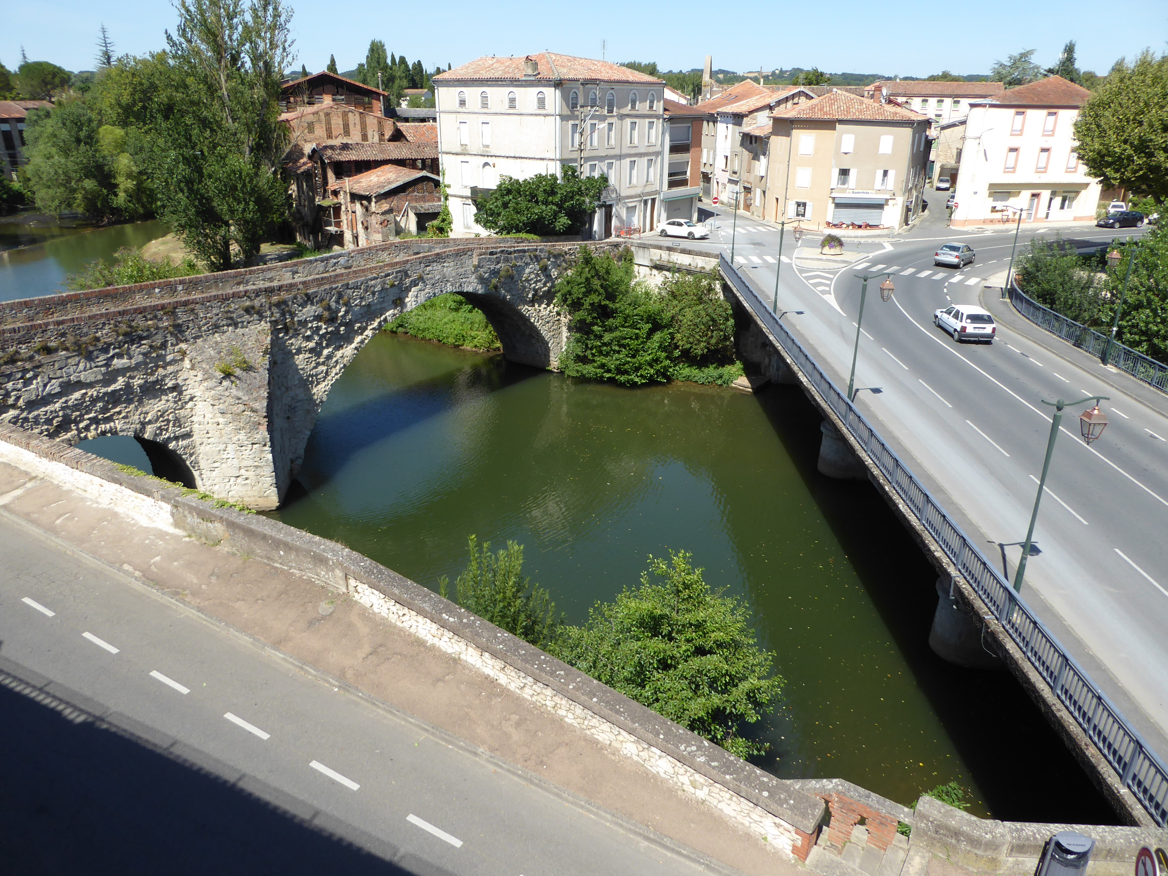 Old and new bridges over the Dadou river in Graulhet, Midi-Pyrénées, France .